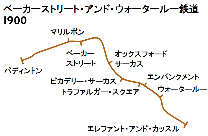 Geographic Map of the Baker Street & Waterloo Railway, 1900.